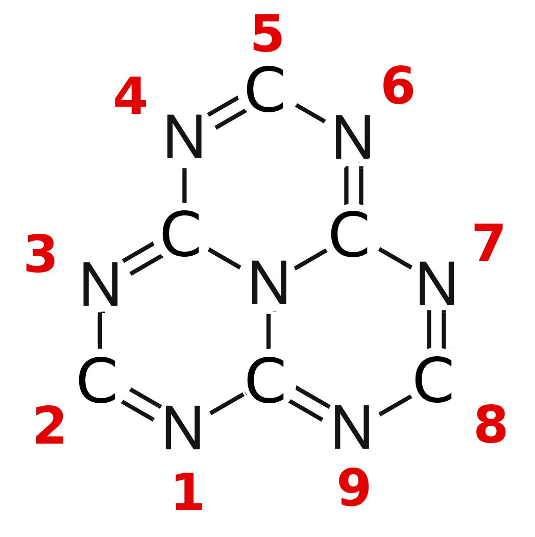 Numbering of substitution positions on the heptazine core. Substituons on the nitrogen atoms (1,3,4,6,7,9) imply rearrangement of the bonds.